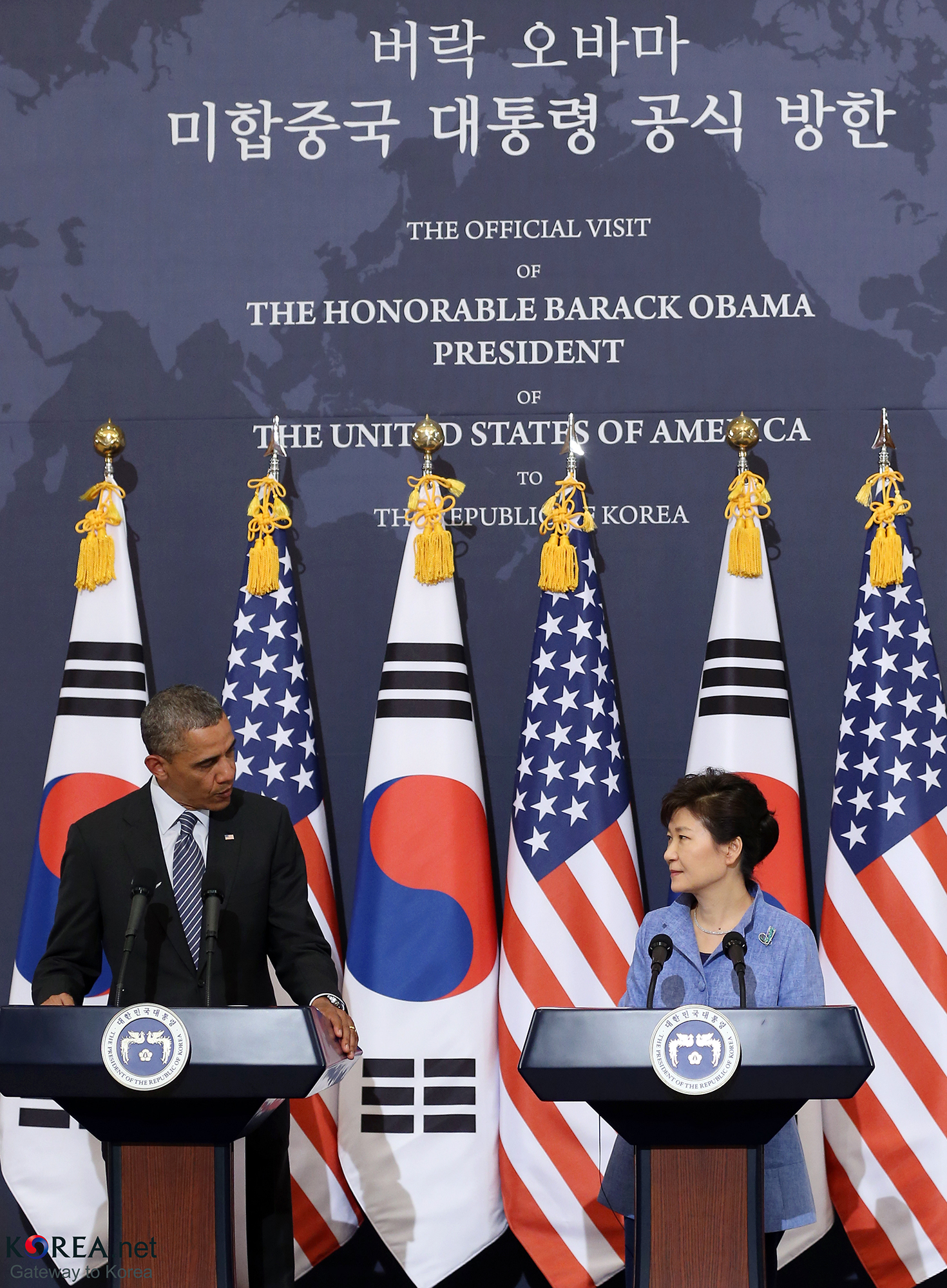 The Official Visit of Barack Obama President of the United States of America President Park Geun-hye and U.S. President Barack Obama attend a joint press conference at Cheong Wa Dae Cheong Wa Dae, Seoul Ministry of Culture, Sports and Tourism Korean Culture and Information Service ( Official Photographer: Jeon Han 버락 오바마 미국 대통령 공식 방한 박근혜 대통령과 버락 오바마 미국 대통령이 25일 청와대에서 공동기자회견을 하고 있다. 2014-04-25 청와대 문화체육관광부 해외문화홍보원 전한